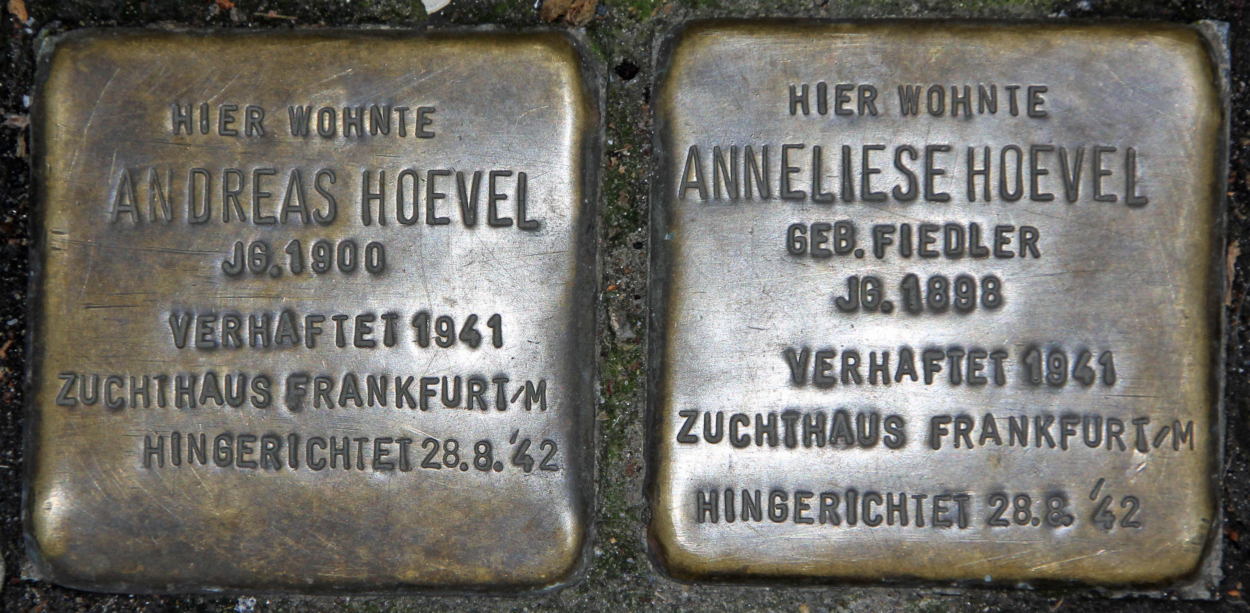 Stolperstein in Koblenz